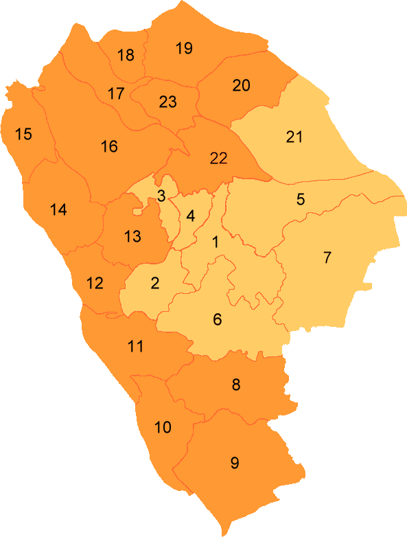 Map of Zhongshan in Guangdong province.